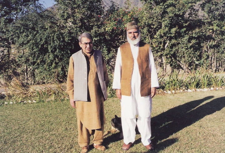 Afzal Khan Lala with Kabir Stori in Peshawar, Pakistan